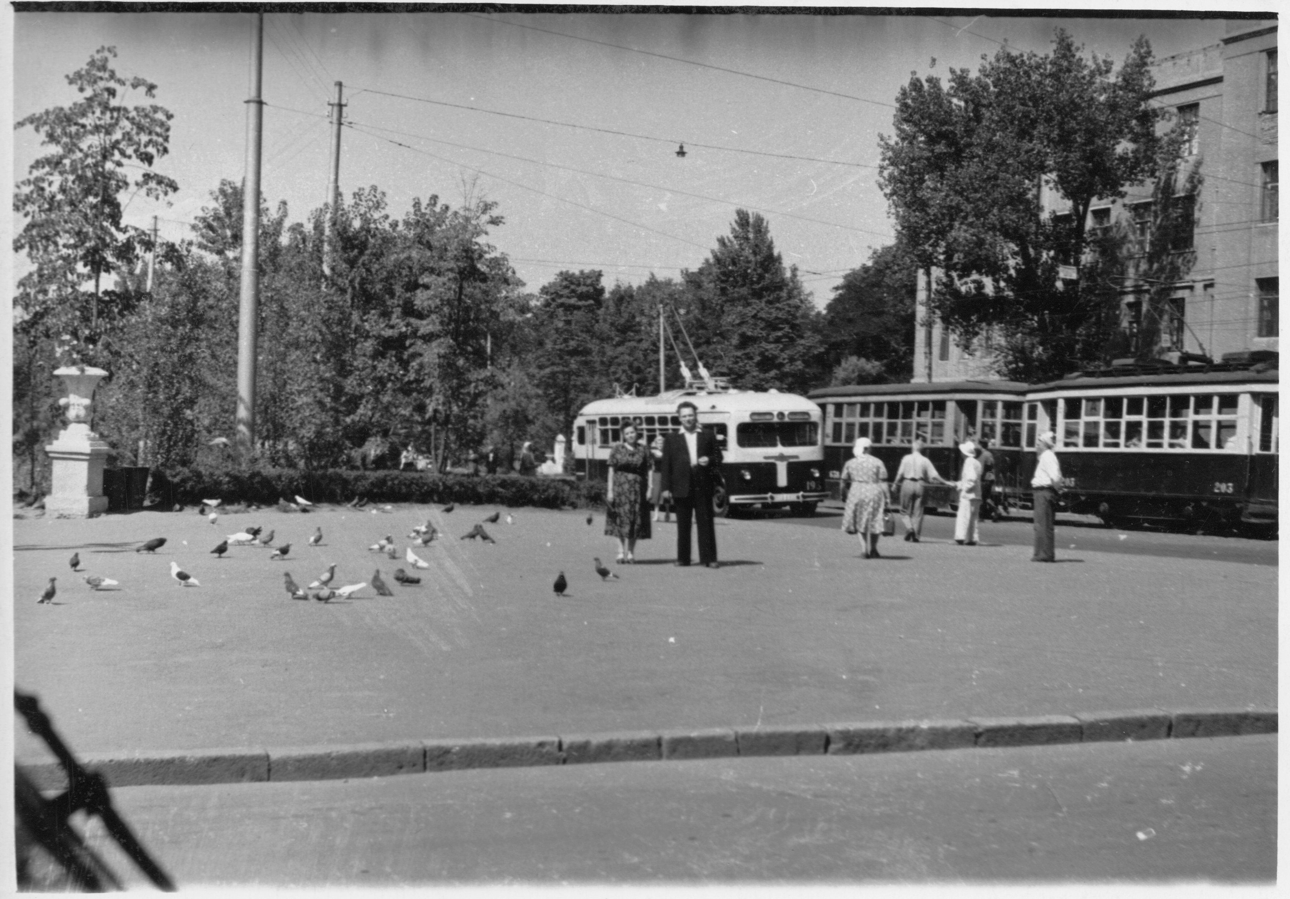 Kharkov trolley № 193 and tram. № 203-638 Trinklera str. 1950-1953.